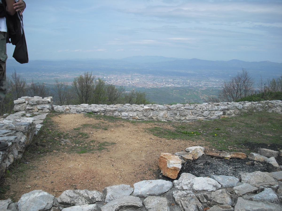 View on Gradina Fortress on Jelica with city of Čačak behind, Serbia.